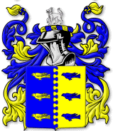 Coats of Arms Fleetwood